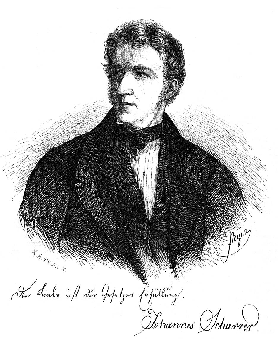 caption: "Die Liebe ist die Gesetzes Erfüllung. Johannes Scharrer."